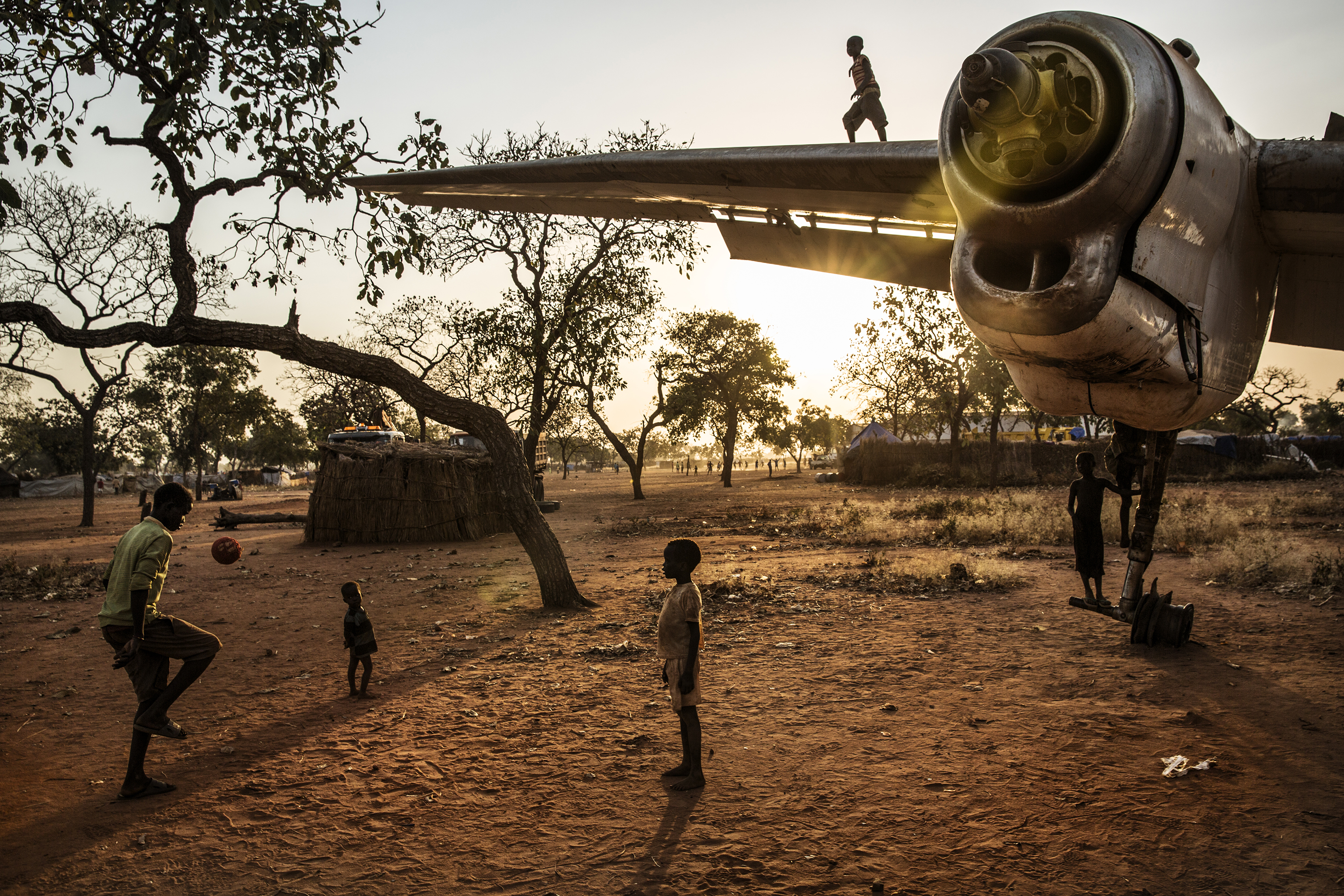 South Sudan, Unity State. Yida refugee camp in South Sudanese territory, 20 km far from the border with Sudan. The camp hosts 68,000 refugees from the Nuba Mountains. For over two years now, Sudan’s government has waged a bombing campaign against the civilians it accuses of supporting the Nuban rebels. Cheap shrapnel bombs are dropped out of Antontov cargo planes nearly every day. The campaign caused terror to the people of the Nuba mountain range, forcing many to flee, and making it almost impossible for others to plant crops and tend their farms. This is an image with the theme "Play" from: South Sudan